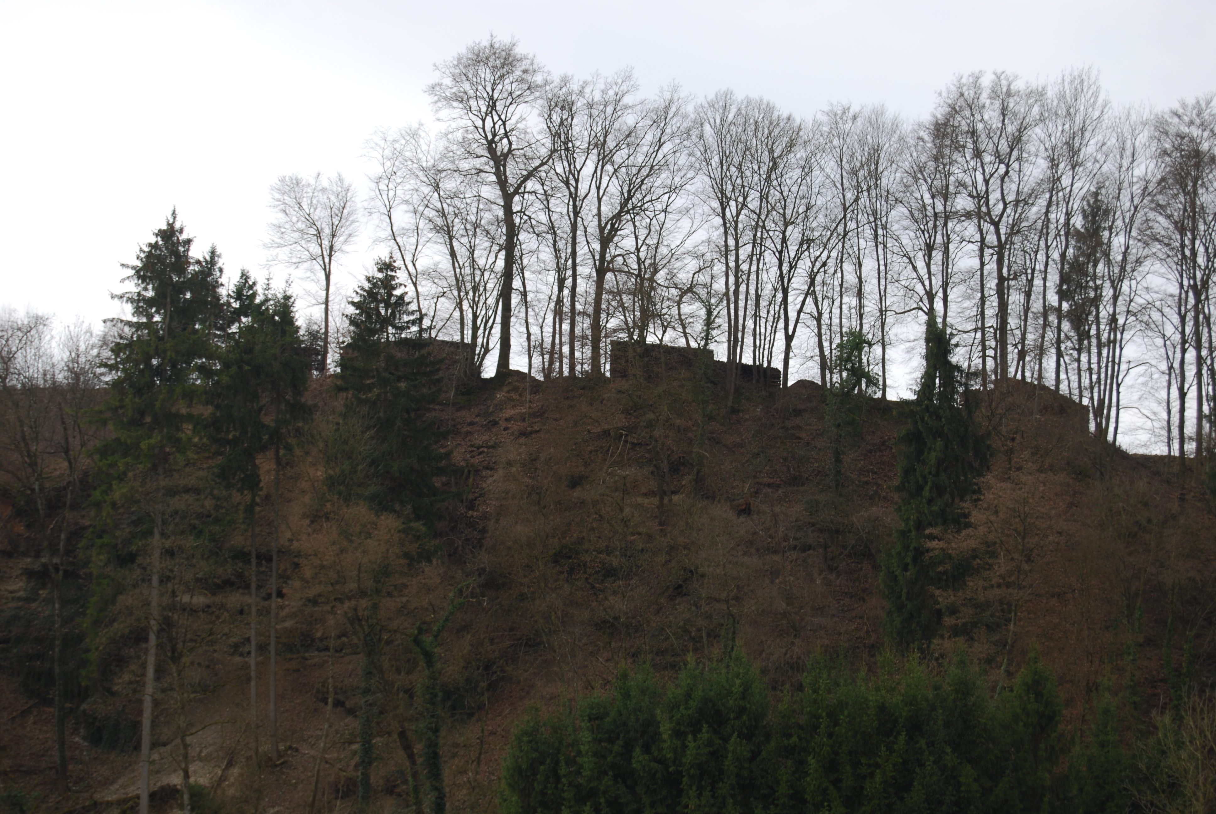 View to the castle hill in Tegerfelden, canton of Aargau, SwitzerlandEsperanto: Rigardo al la kastelmonteto en Tegerfelden, Kantono Argovio, Svislando